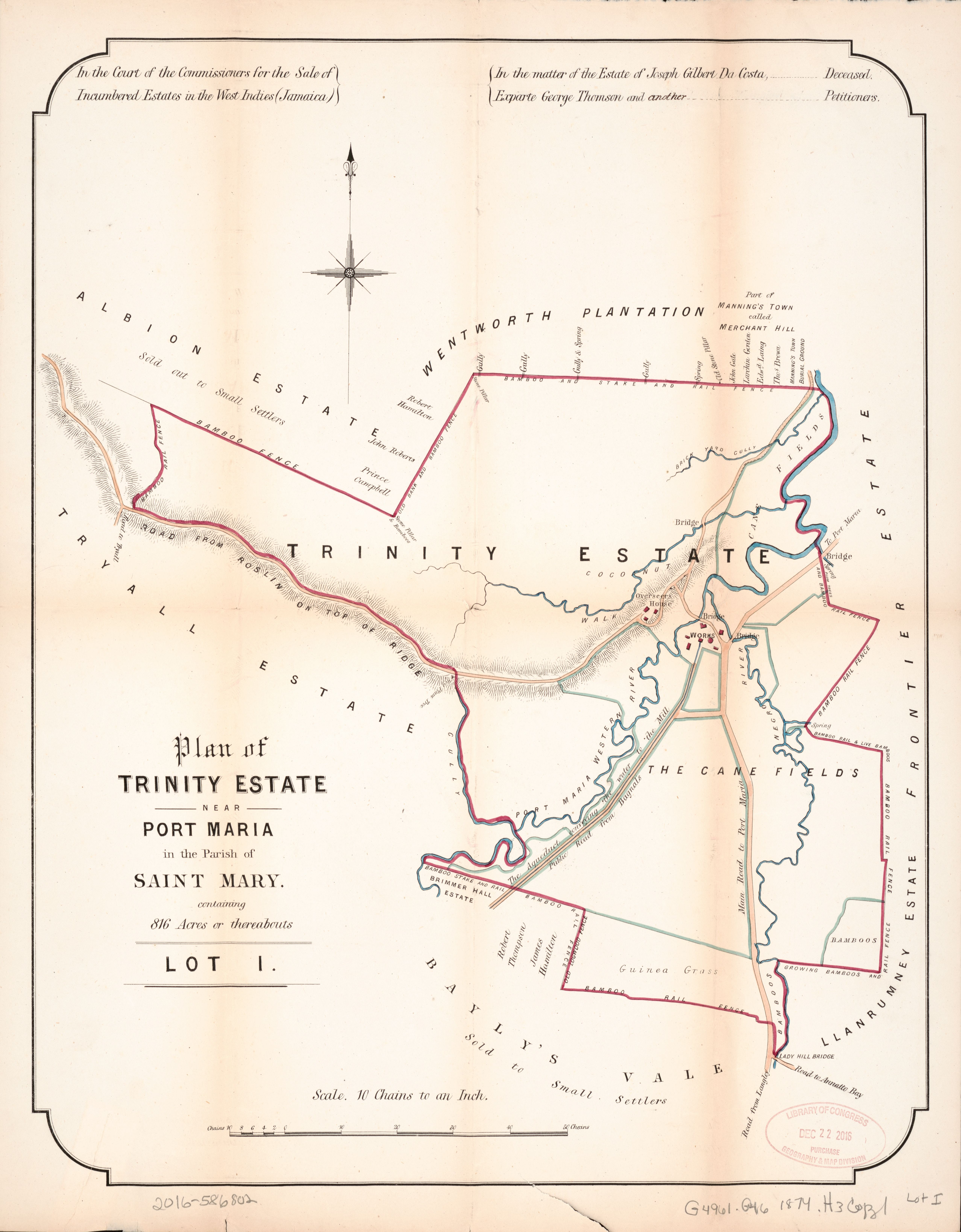 Title from accompanying text. "In the matter of the Estate of Joseph Gilbert da Costa, deceased. Exparte George Thomson abd another, petitioners." "Sale on Wednesday, 25th November, 1874." Accompanied by text: In the Court of the Commissioners for Sale of Incumbered Estates in the West Indies, Jamaica. ([4] unnumbered pages : cadastral data, annotations ; 45 cm, folded to 28 x 12 cm). "The Auction Mart, Tokenhouse Yard, Lothbury, in the city of London, on Wednesday, the 25th day of November, 1874, at one o'clock precisely. The purchaser will have an indefeasible Parliamentary Title under the Seal of the Court." Copy imperfect: Use-worn, torn along fold lines, cover of accompanying text detached. Available also through the Library of Congress Web site as a raster image.